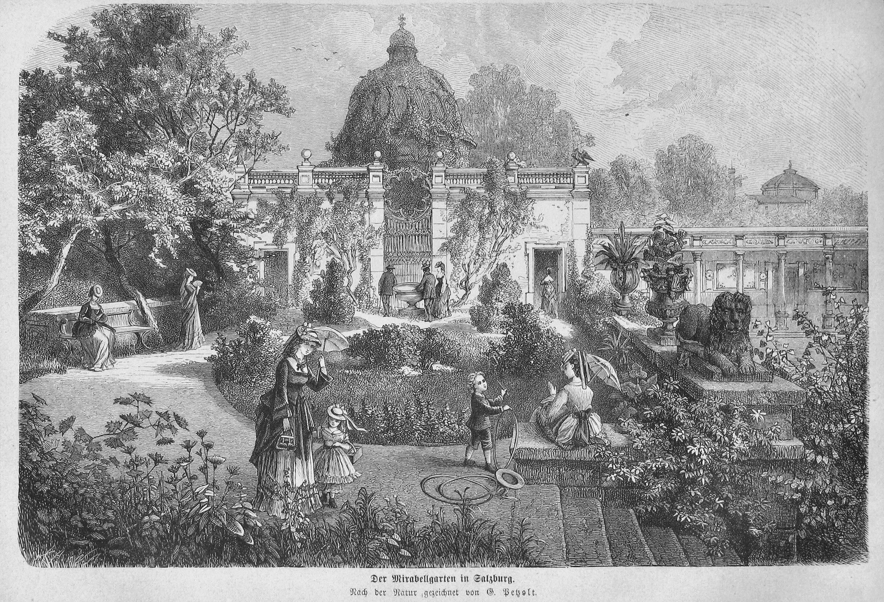 caption: "Der Mirabellgarten in Salzburg. Nach der Natur gezeichnet von G. Petzolt."